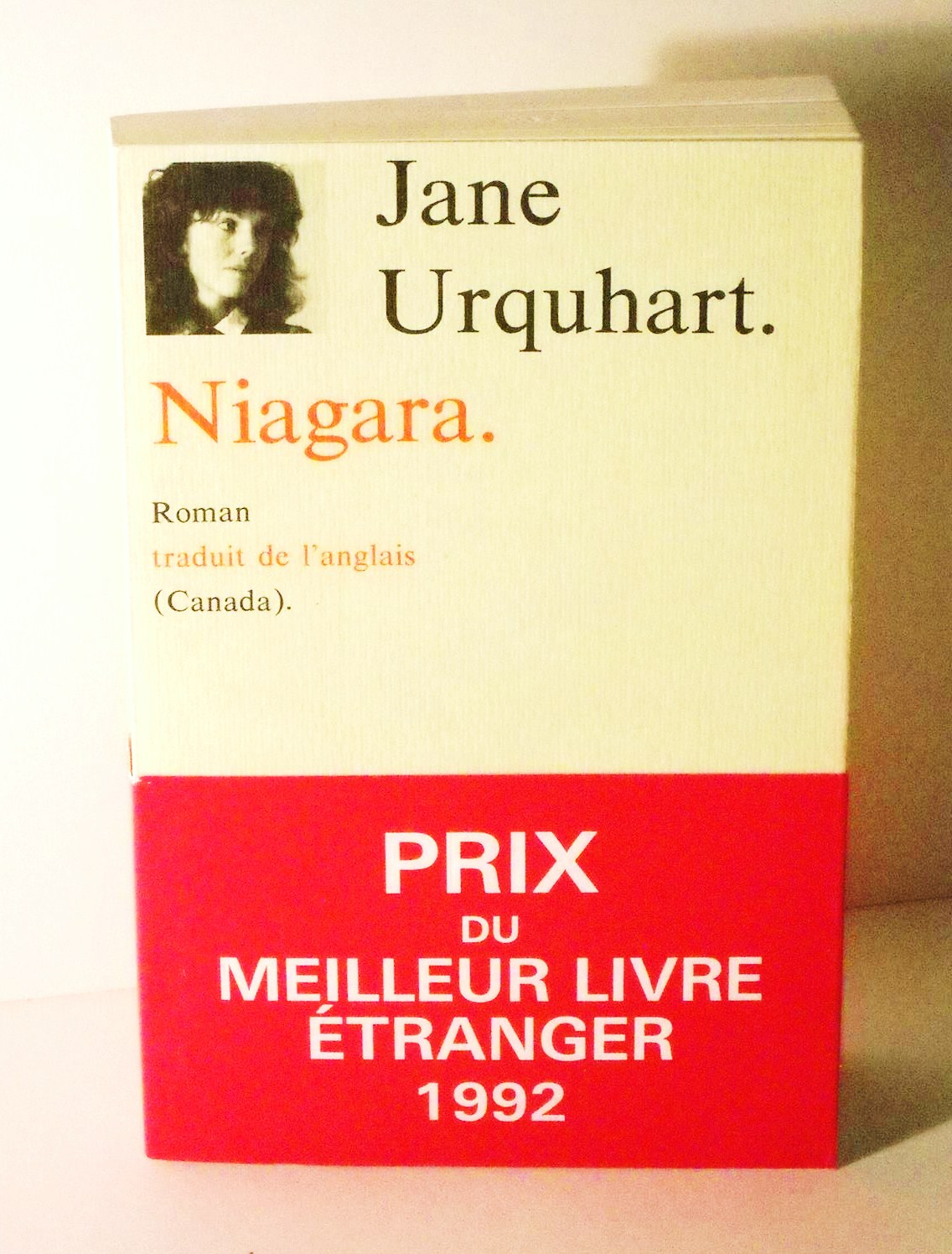 Niagara, a novel by Jane Urquhart.